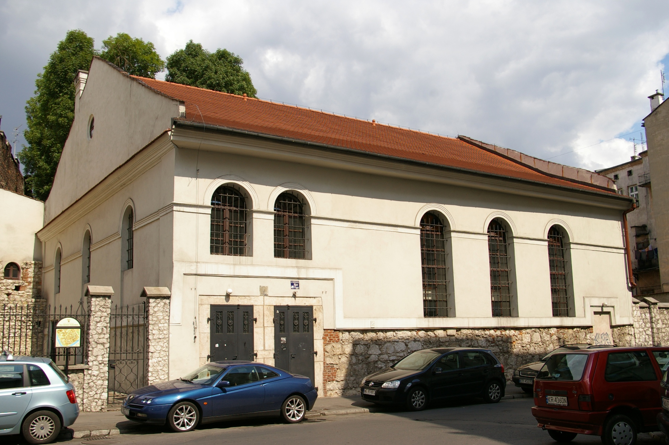 Kupa Synagogue in Warszauera Street, Kraków